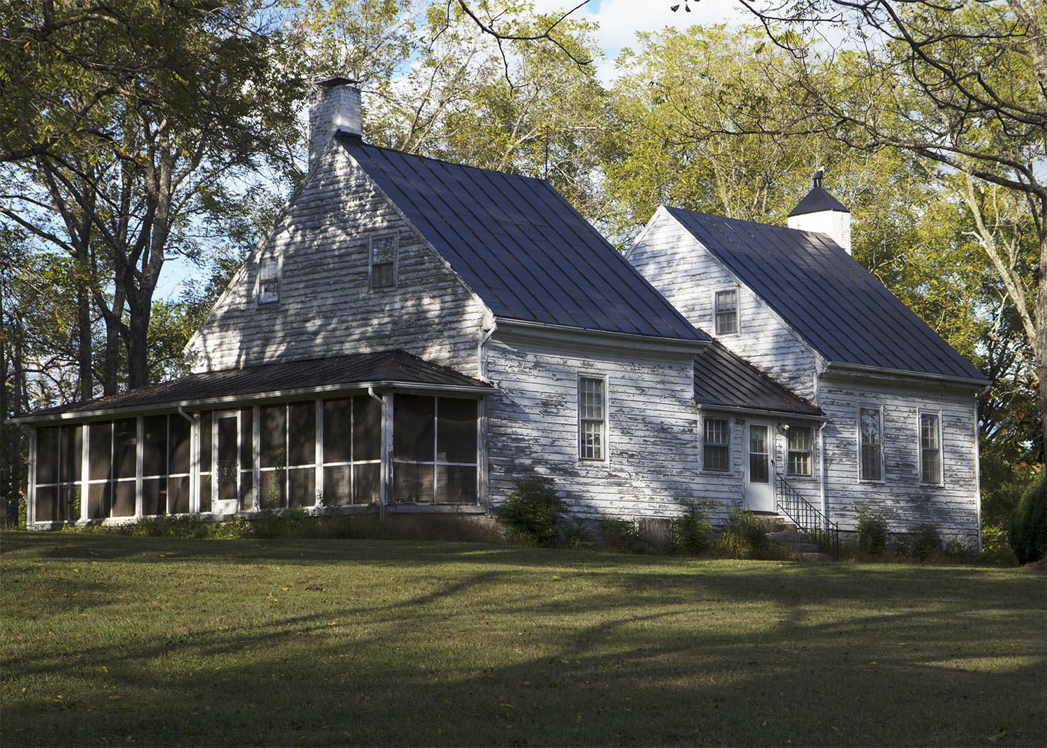 Woodlawn